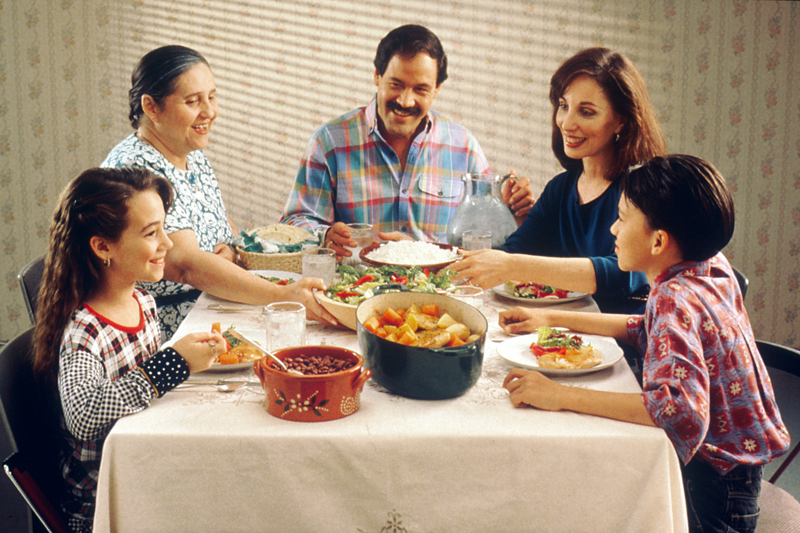 Title Family Eating Meal Description A Hispanic family (male adult, two female adults, female child, and male child) enjoy a meal at the dinner table. Topics/Categories Food and Drink People -- Adult People -- Child People -- Family/Friends Type Color, Photo Source National Cancer Institute